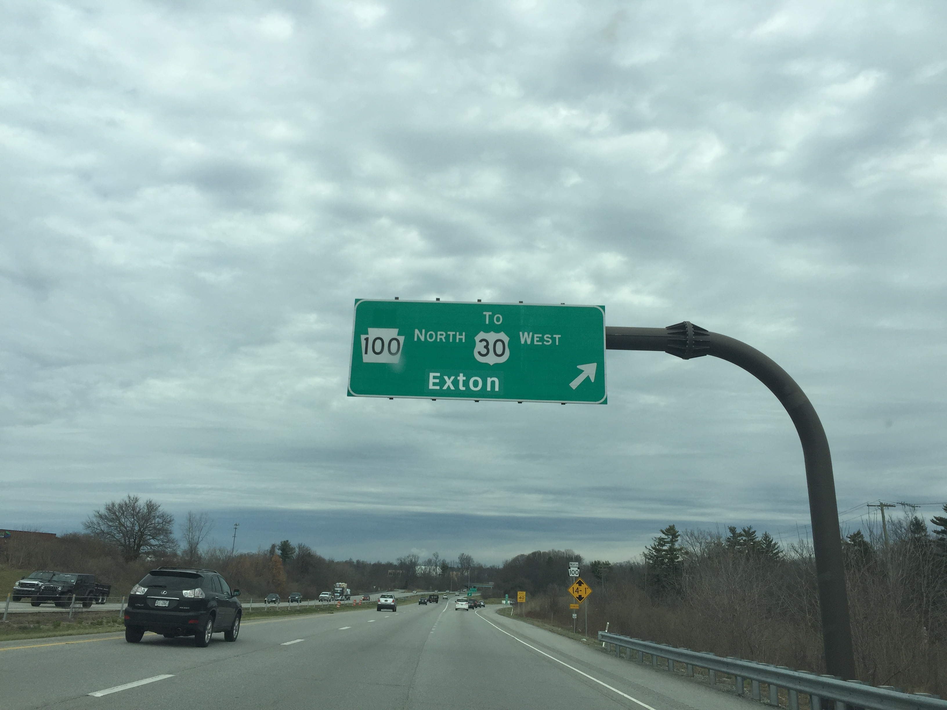 PA 100 begins at US 202